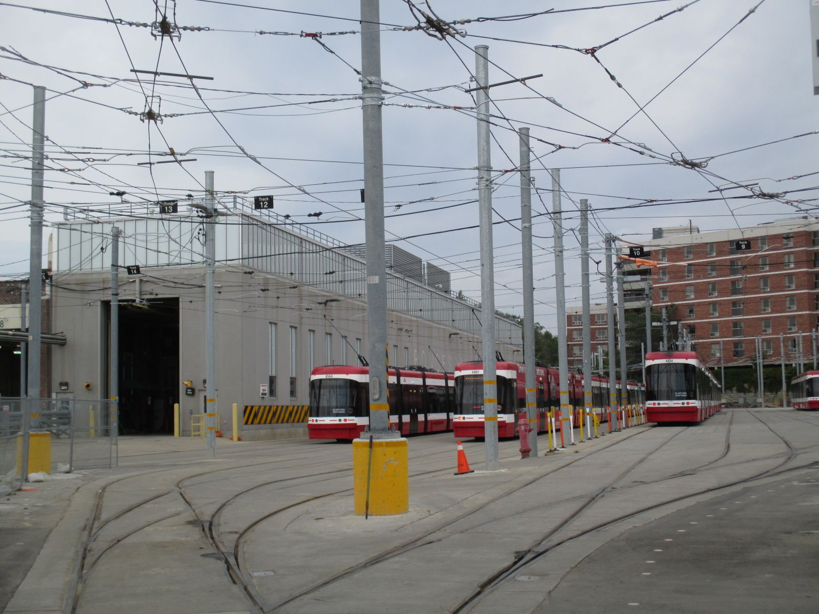 Building for maintaining low-floor streetcars at Roncesvalles Carhouse